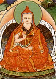 Jikmé Tenpé Nyima (Wylie: 'jigs med bstan pa'i nyi ma}, the Third Dodrupchen Rinpoche, (1865-1926)